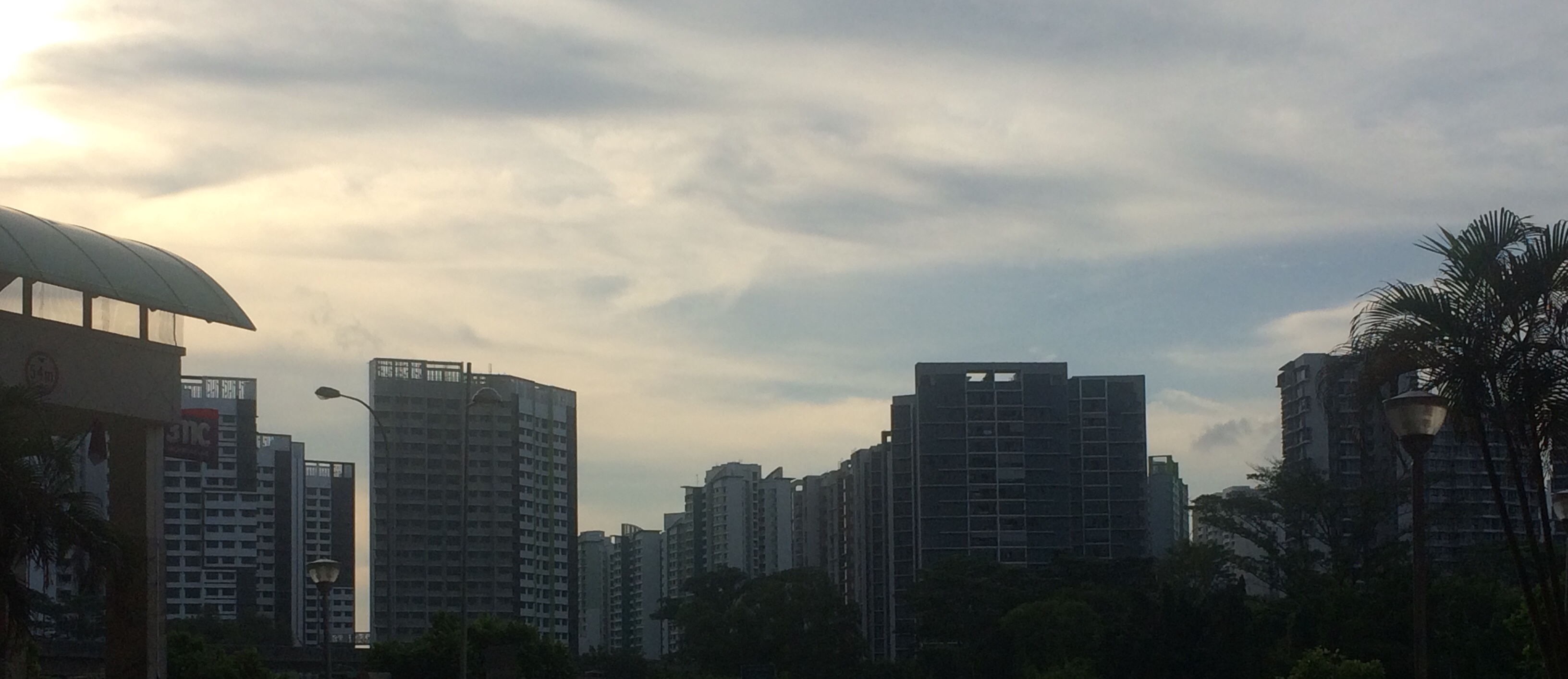 Fernvale, Singapore at dusk. It was pictured from the opposite bank of Sungei Pungool at Anchorvale Vista on 29 October 2016.